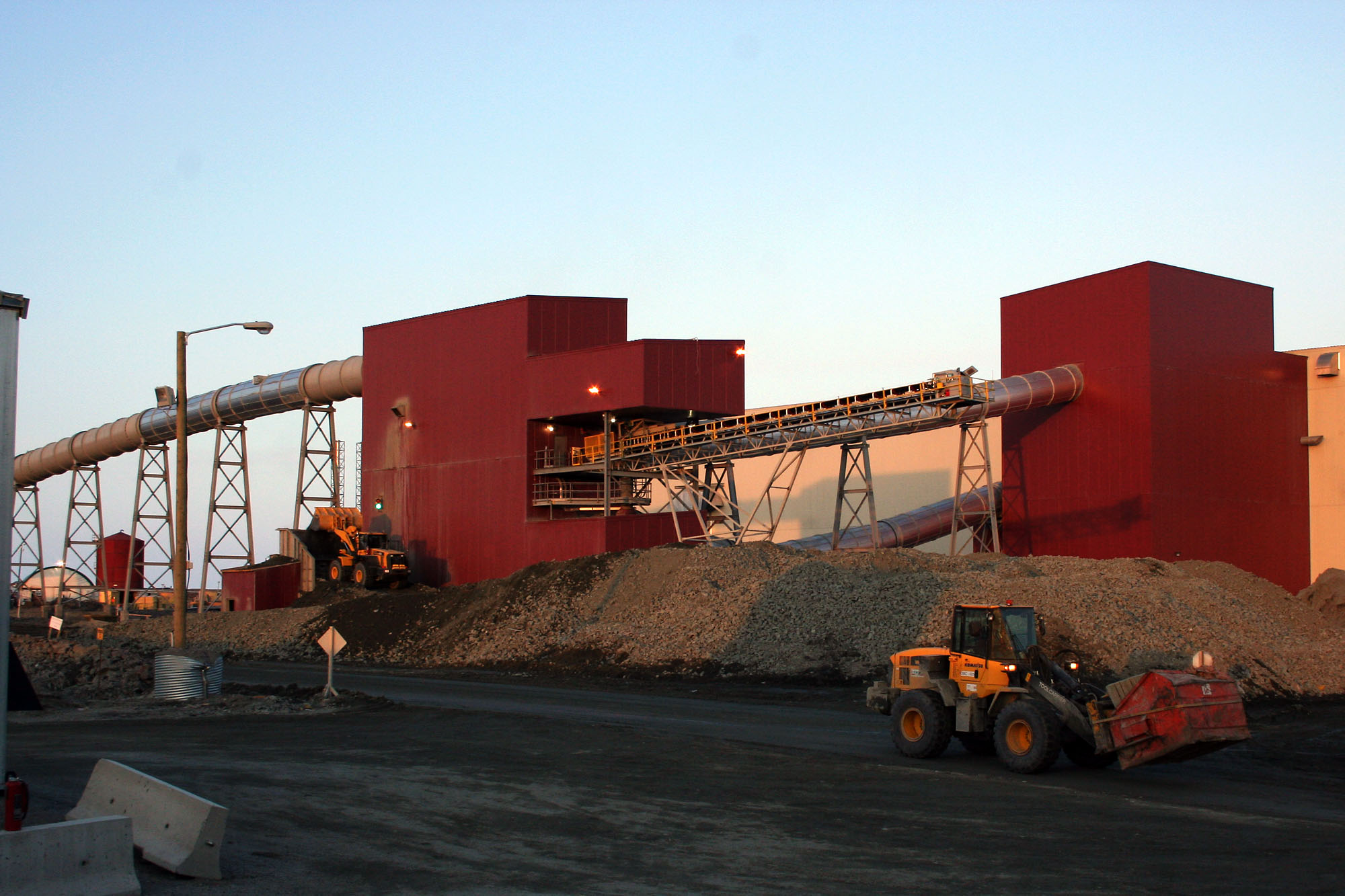 Two loaders work outside the ore processing and recovery plant at De Beers' Snap Lake Diamond Mine, Northwest Territories, Canada. The conveyor that carries ore from the underground operations is visible, entering the processing facility from the left.